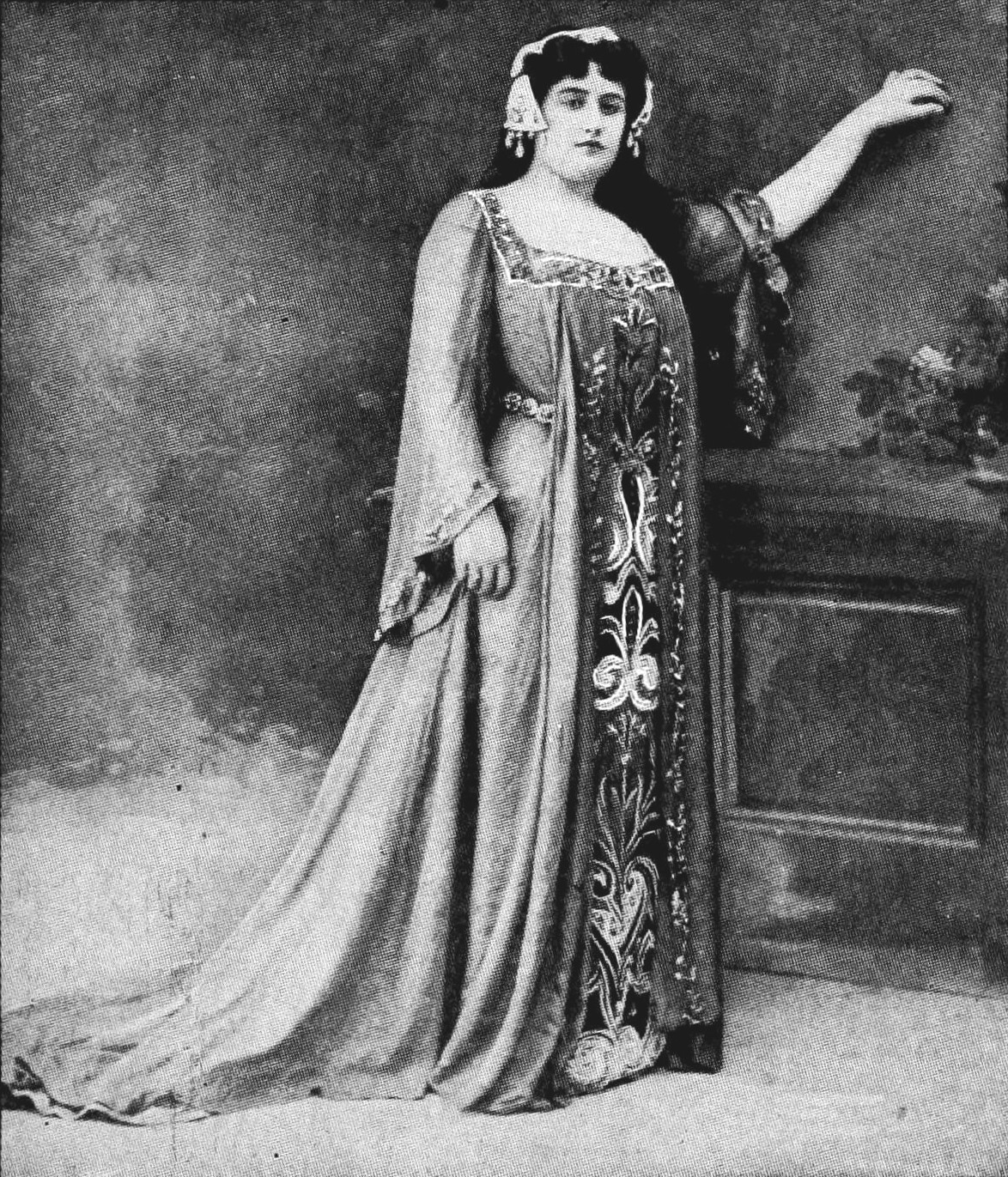 Weber - Oberon - Agnès Borgo as Rezia Title: The Victrola book of the opera : stories of one hundred and twenty operas with seven-hundred illustrations and descriptions of twelve-hundred Victor opera records Year: 1917 (1910s) Authors: Victor Talking Machine Company Rous, Samuel Holland Subjects: Operas Publisher: Camden, N.J. : Victor Talking Machine Co. Text Appearing Before Image: ingthe fairy horn, appears with Titania, savesthe lovers, and bears them to the Court ofCharlemagne, where Huon is pardoned, andOberon and Titania, influenced by the con-stancy of Huon and Rezia, are reunited. The air which is presented here belongsto the scene wherein the lovers are ship-wrecked. It is sung by Rezia, the openingrecitative describing the terrors of the sea. Rezia: Ocean! thou mighty monster,That liest curld Like a green monster round about the world!To musing eye thou art an awful sight,When calmly sleeping in the morning light;But when thou risest in thy wrath, as now,And flingst thy folds around some fated prow,Crushing the strong ribbd bark as twere a shell,Then, Ocean, thy powr is fierce and fell!Still I see thy billows flashing,Through the gloom their white foam flinging,And the breakers sullen dashingjorgo as rezia In mine ear hopes knell is ringing! Ozean ! Du Ungeheuer (Ocean, Thou Mighty Monster) By Johanna Gadski, Soprano (In German) 88545 12-inch, $3.00 343 Text Appearing After Image: PHOTO ORICEL